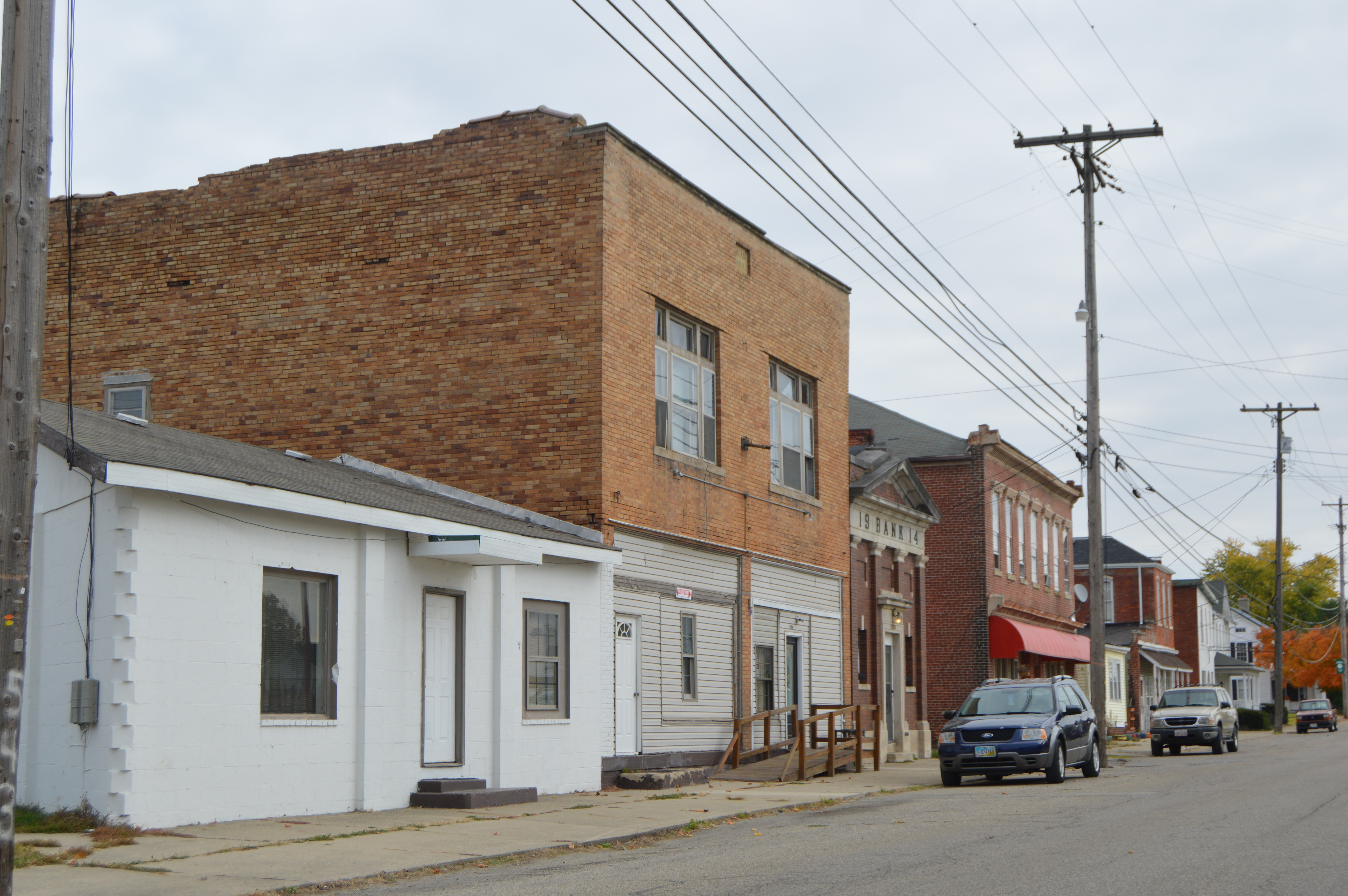 Buildings on the northern side of Main Street east of the former railroad crossing in Stoutsville, Ohio, United States.